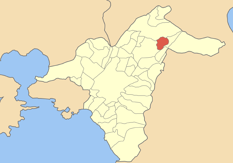 Locator map of Melissia municipality (Δήμος Μελισσίων) in Athina Nomarchia (Νομαρχία Αθηνών) in Greece.